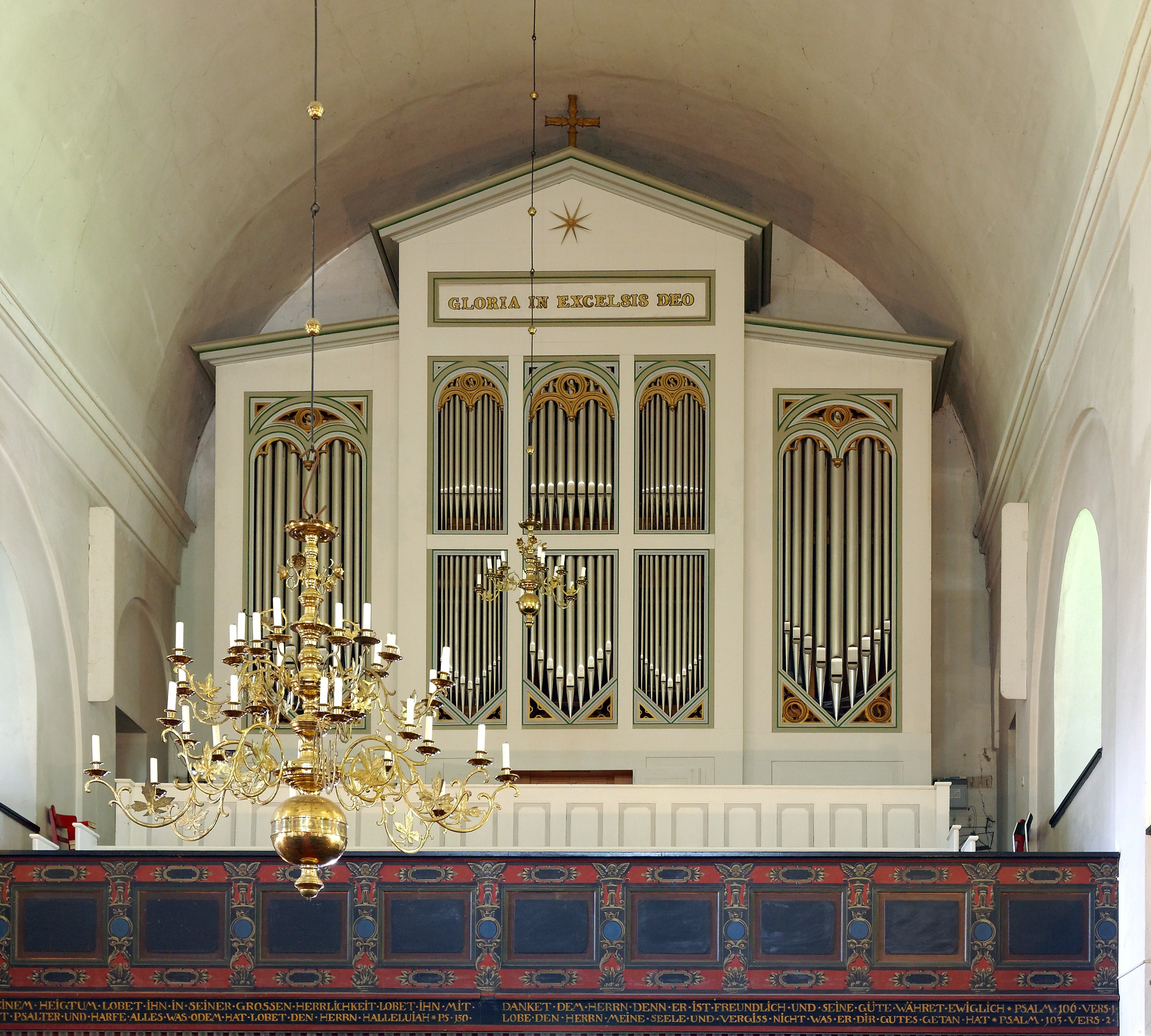 Church in Nusse, pipe organ